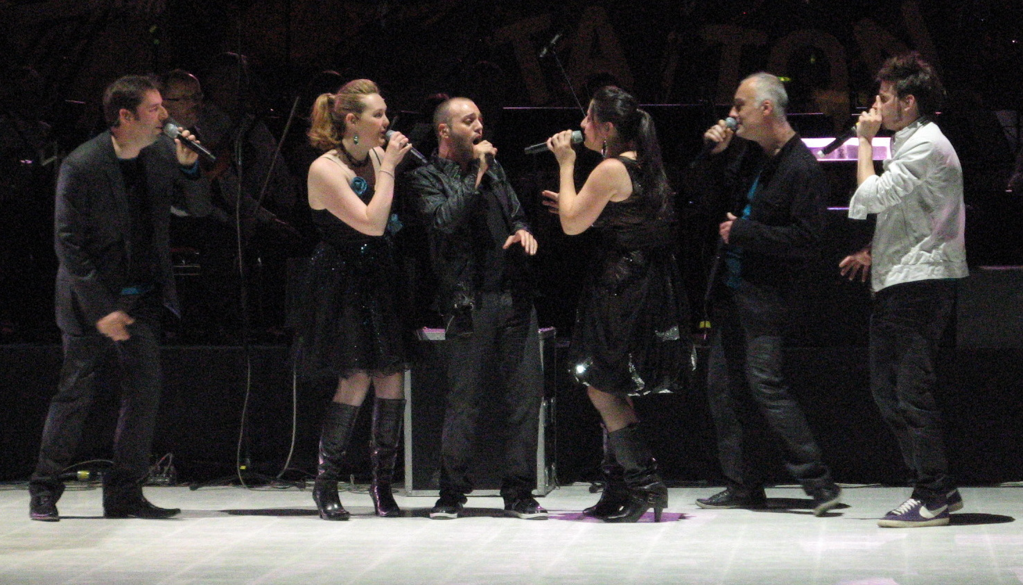 Witloof Bay at the Swedish song and musik festival "Ta i ton" in Turku, at the concert in Kupittaan jäähalli in Turku (orchestra in the background as spectators).